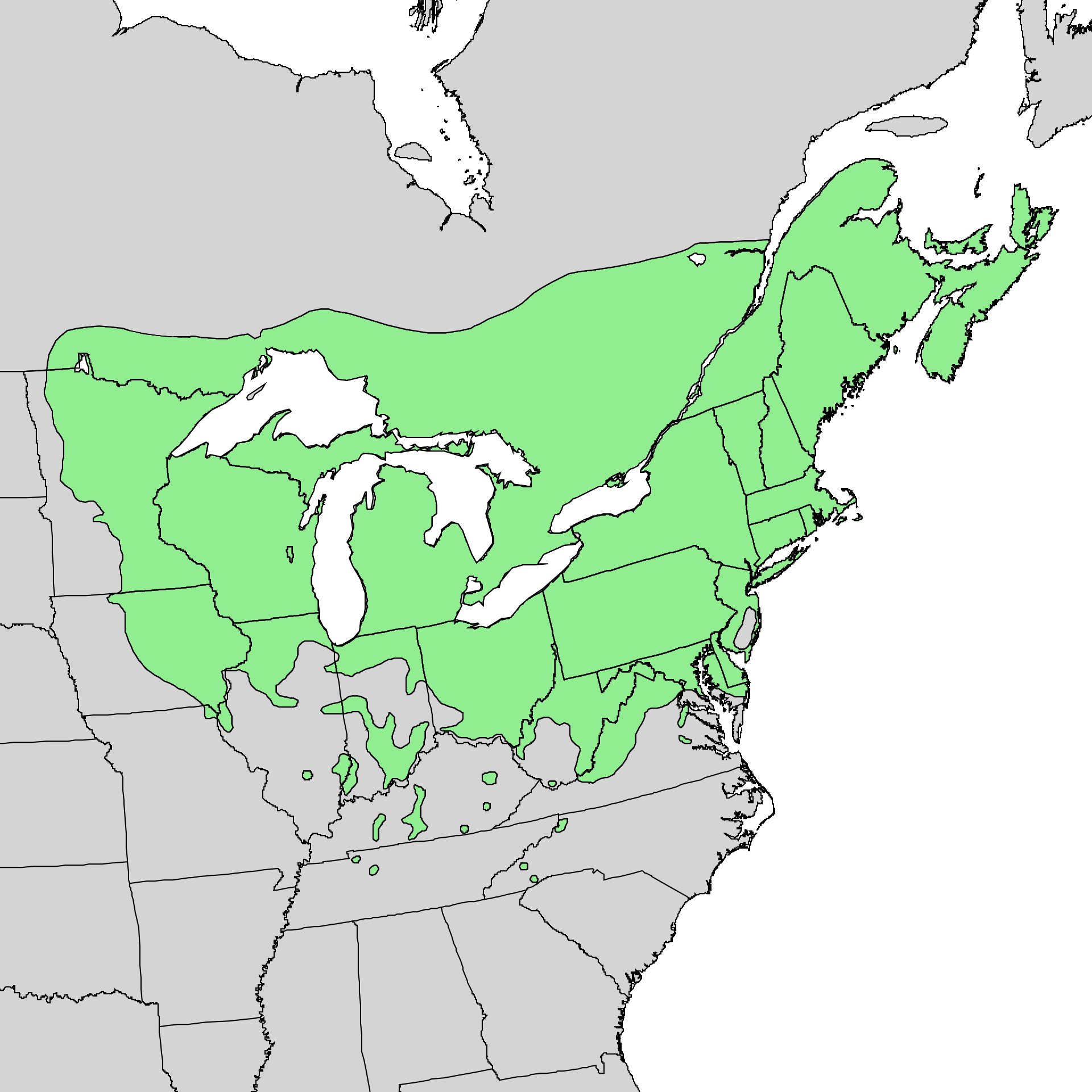 Range map of the Bigtooth aspen